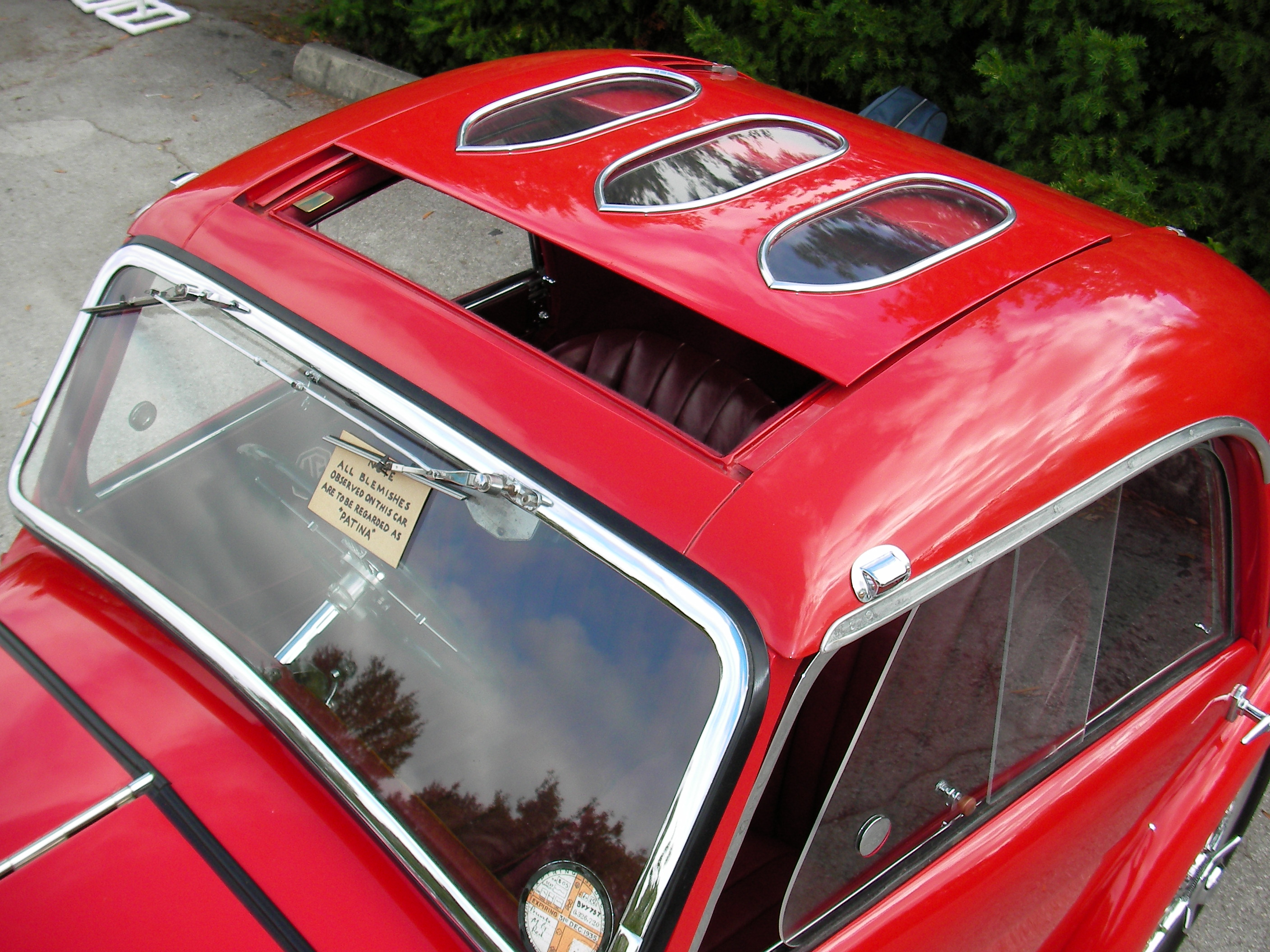 MG PA Airline Coupe sliding head